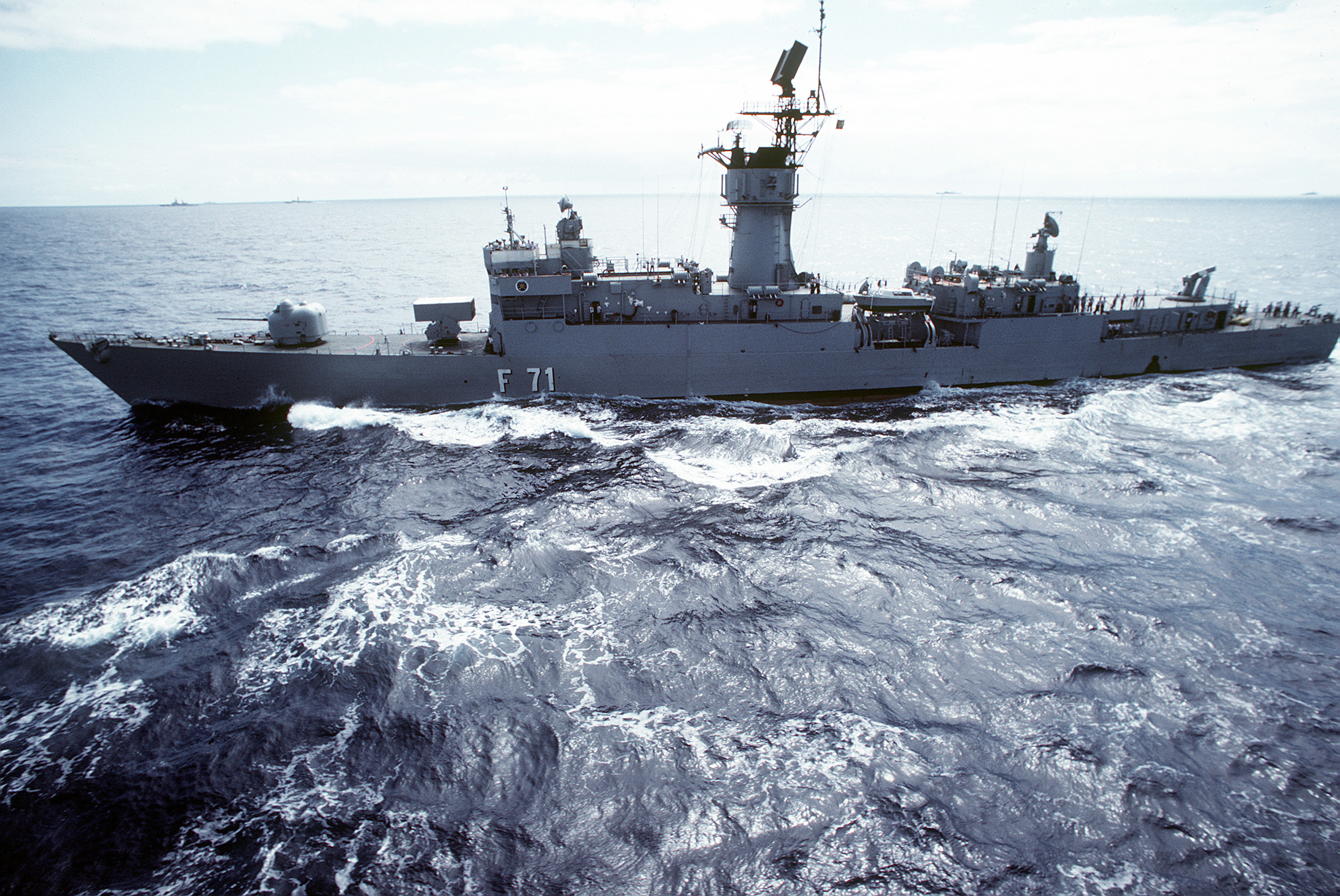 The Spanish frigate Baleares (F-71) underway during exercise "Ocean Venture '81", on 1 September 1981.